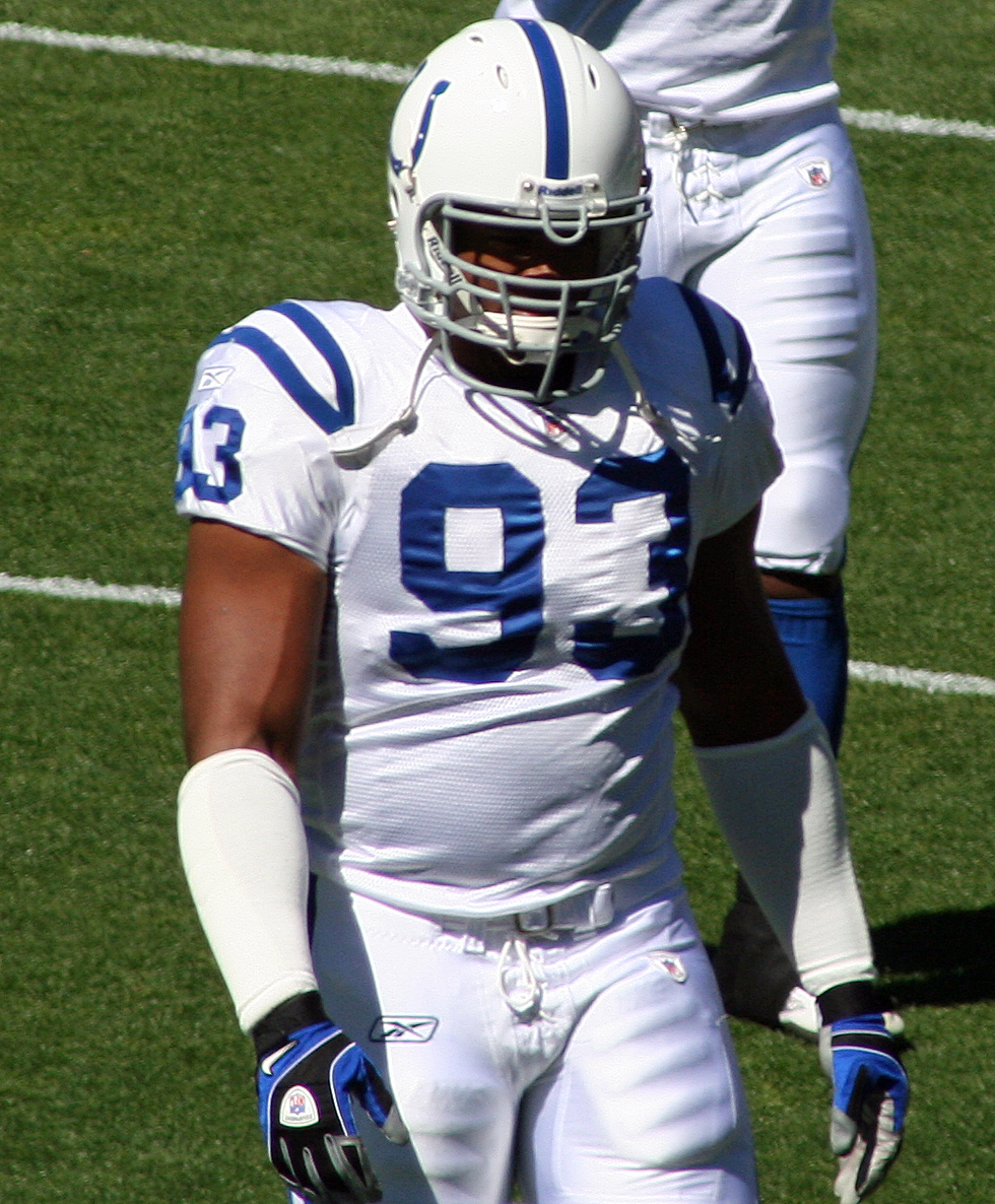 Dwight Freeney, a player on the Indianapolis Colts American football team.